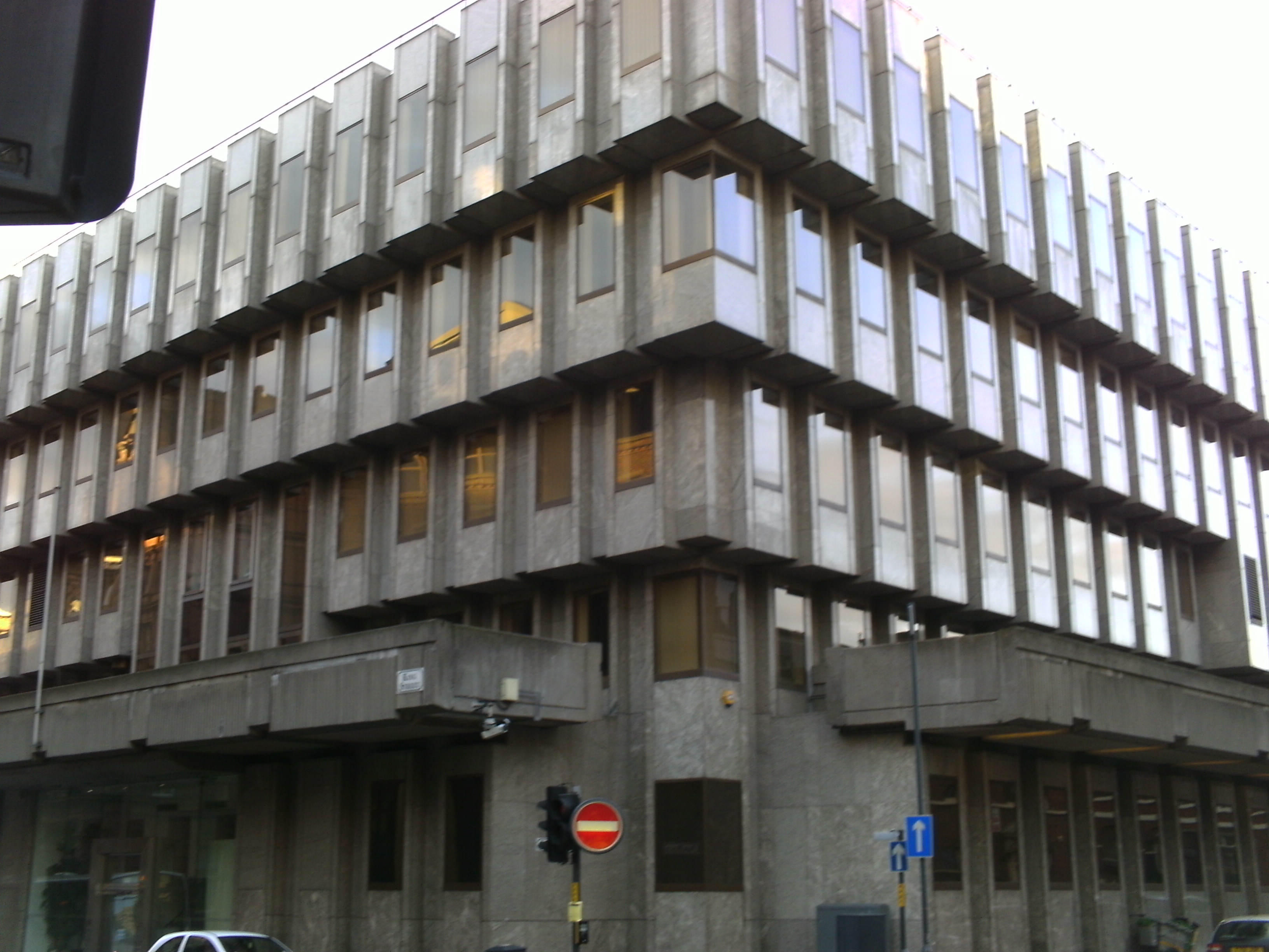 The Bank of England offices in Leeds.